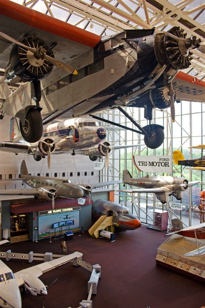 Author: David Bjorgen Photograph of exhibits at the National Air and Space Museum.